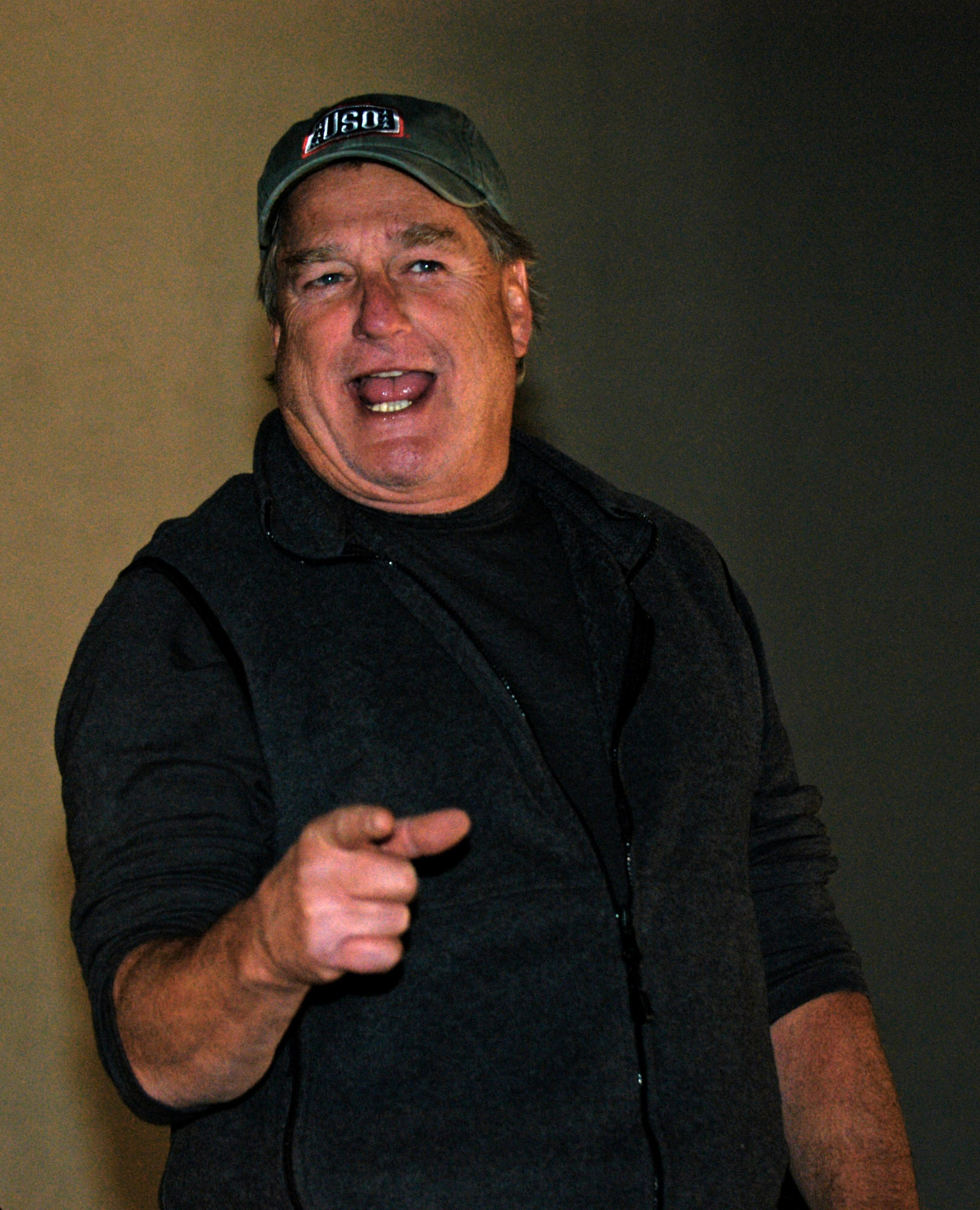 Blake Clark performs his stand up comedy act for troops in the Base Theater during the Holiday Handshake Tour in Iraq.